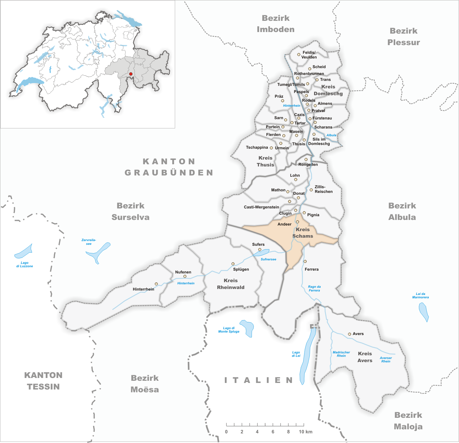 Municipality Andeer